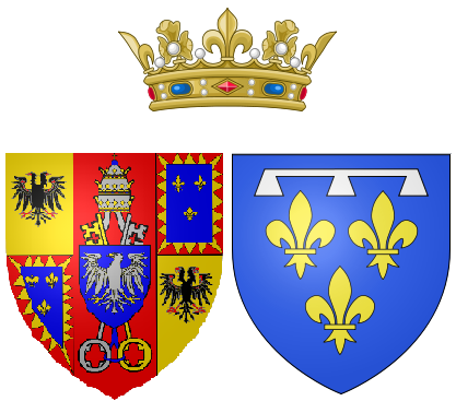 Coat of arms of Charlotte Aglaé d'Orléans as Duchess of Modena